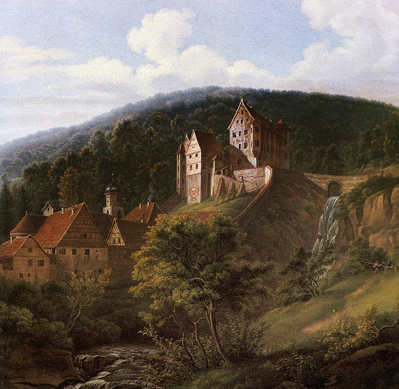 Schloss Weissenstein